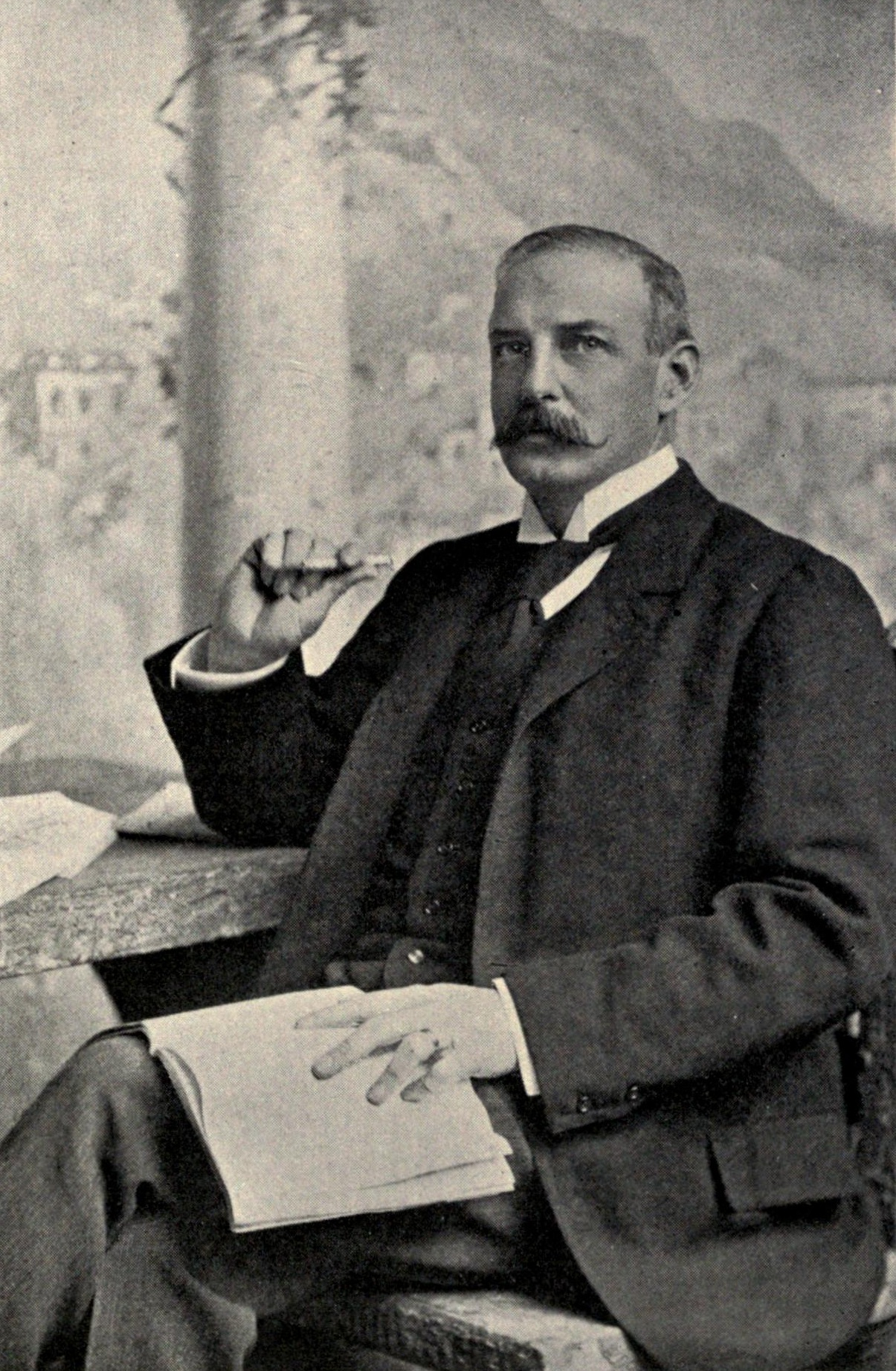 F M Crawford